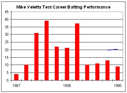 Test batting chart of Mike Veletta. Red columns are the runs in the innings. Blue dots indicate not outs. Blue line is average in the last ten innings. Thanks to Raven4x4x for providing the template.